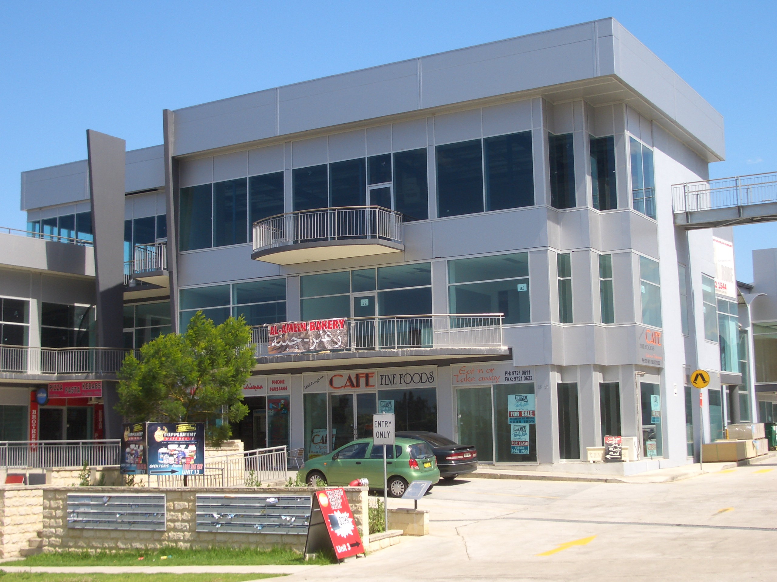 South Granville, warehouse and commercial complex